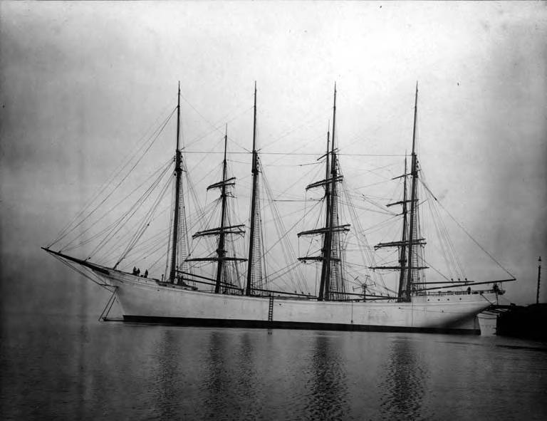 Handwritten on verso: 4 m. sch. Wm F. Garms Wm. F. Garms was built in 1901 in Everett by C.G. White, for Sanders & Krichmann and Olson & Mahony of San Francisco. She was 1,094 tons, with a carrying capacity of 1,300,000 feet (p. 69). In 1913, she collided with the barkentine S.G. Wilder at Port Townsend. She was bound for Santa Rosalia, and the captain had challenged the captain of the S.G. Wilder to a race. Both ships were being towed to sea by the Goliah, and the Garms veered into the Wilder, which caused significant damage, delaying the Wilder several days, spoiling the race (p. 232). The Garm was caught in a storm in 1914. Hurricane-force winds swept off the Pacific Coast in January 1914 after having departed Coupleville with a full cargo of mine timbers headed for Santa Rosalia, Mexico, captained by F. Turloff with a crew of 10 men. She drifted within 600 yards of Vancouver Island, and its masts, rudder and steering gear had been torn away by the storm. The crew got away in a lifeboat and were rescued by the Snohomish. The Garms was later repaired and rerigged as the Golden State, owned by the Rolph Navigation & Coal Co. (p. 248). Later the Golden State was sold to L.A. Scott of Mobile, and was lost by fire at sea (p. 307). (Source: Newell, Gordon, ed. "The H.W. McCurdy Marine History of the Pacific Northwest." Seattle: The Superior Company, 1966)